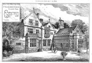 Lithograph of St Katharine's Lodge in Regent's Park, London, architects Pain & Lee.[1]